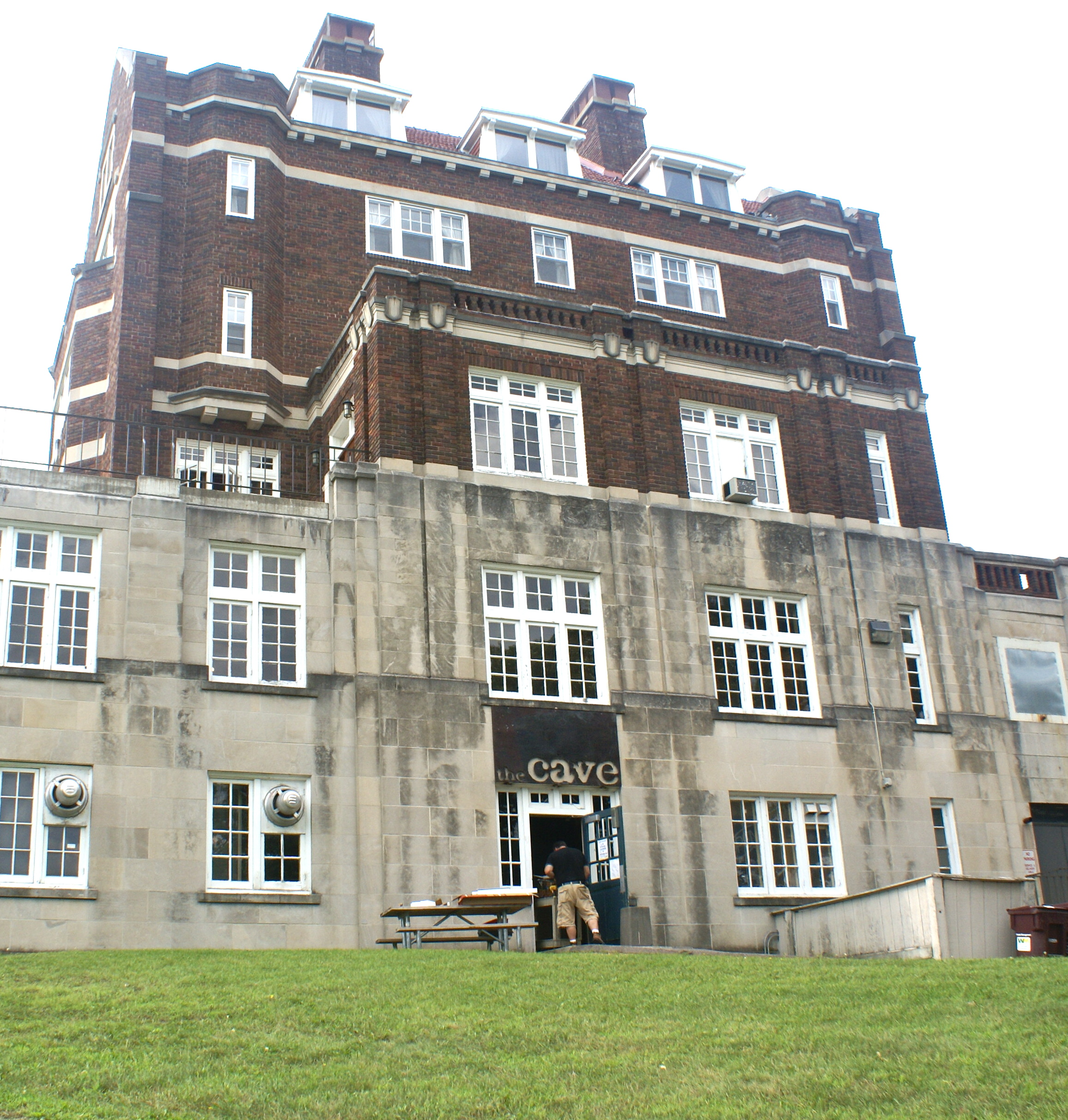 The Cave in Northfield, MN, from the outside